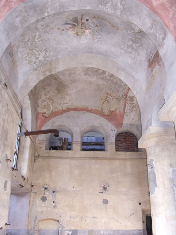 Synagogue in Bychawa